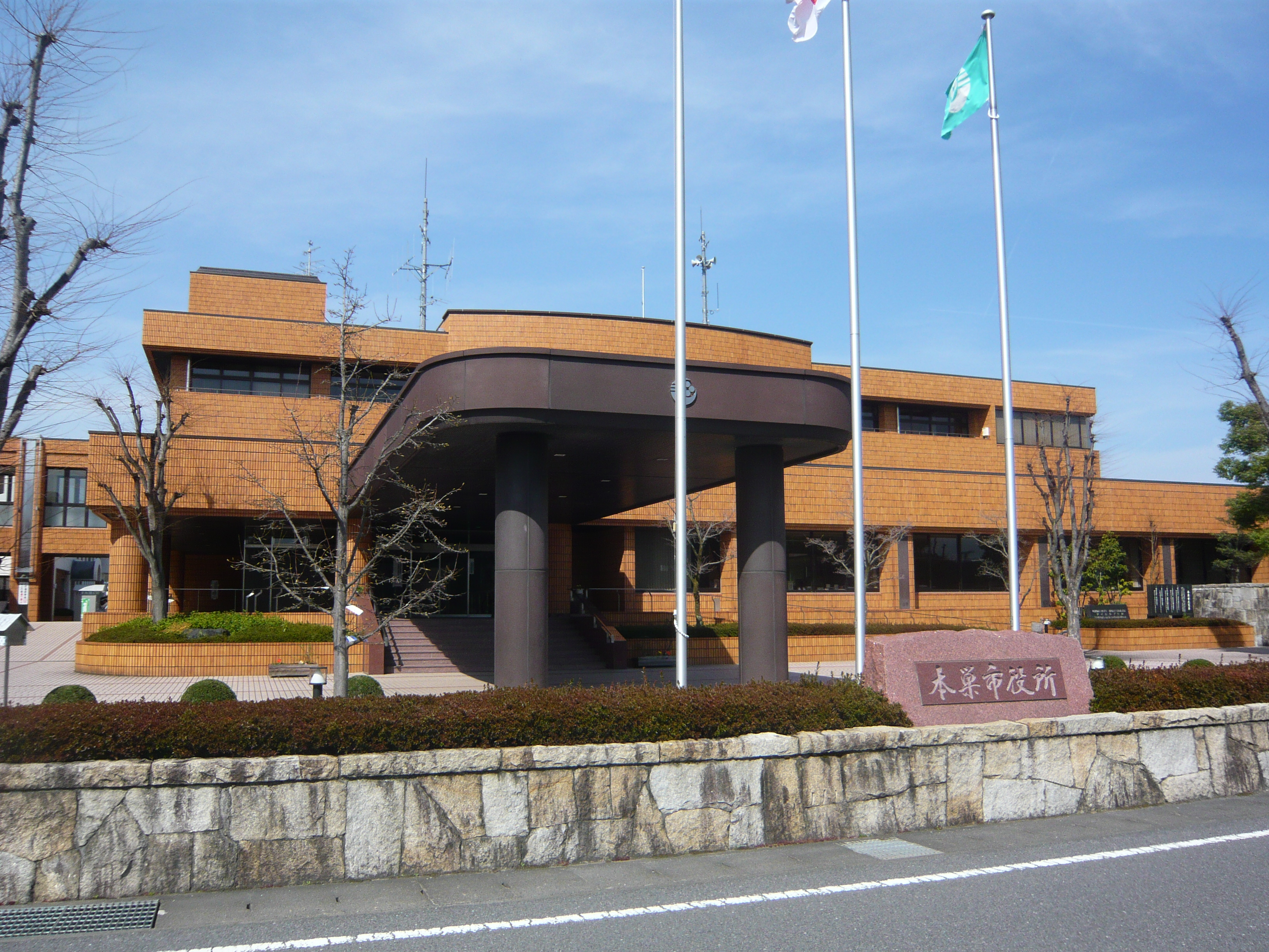 Motosu City Hall, Motosu, Gifu, Japan